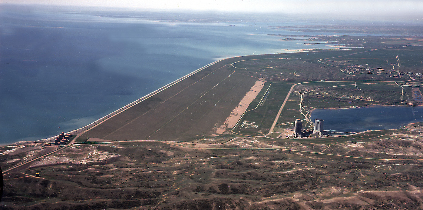 Aerial view of Fort Peck Dam, showing both powerhouses and dam. Missouri River, Fort Peck, Montana.